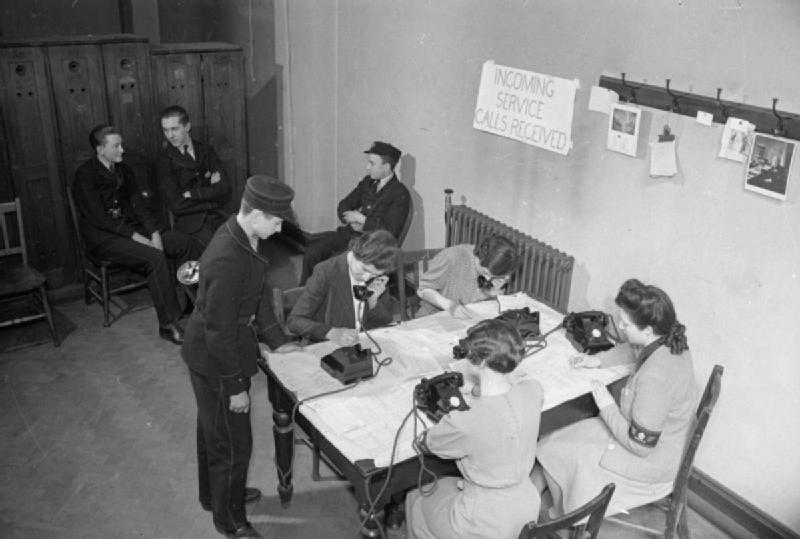 The Telephone Service Carries On, London, January 1942 Incoming messages for bombed out subscribers to the telephone service are received by a team of people on special telephones at the Emergency Telephone Bureau. Short messages are taken by these female telephonists who then relay them to messenger boys who will then deliver them. The women wear brassards with the initials 'OHMS'.